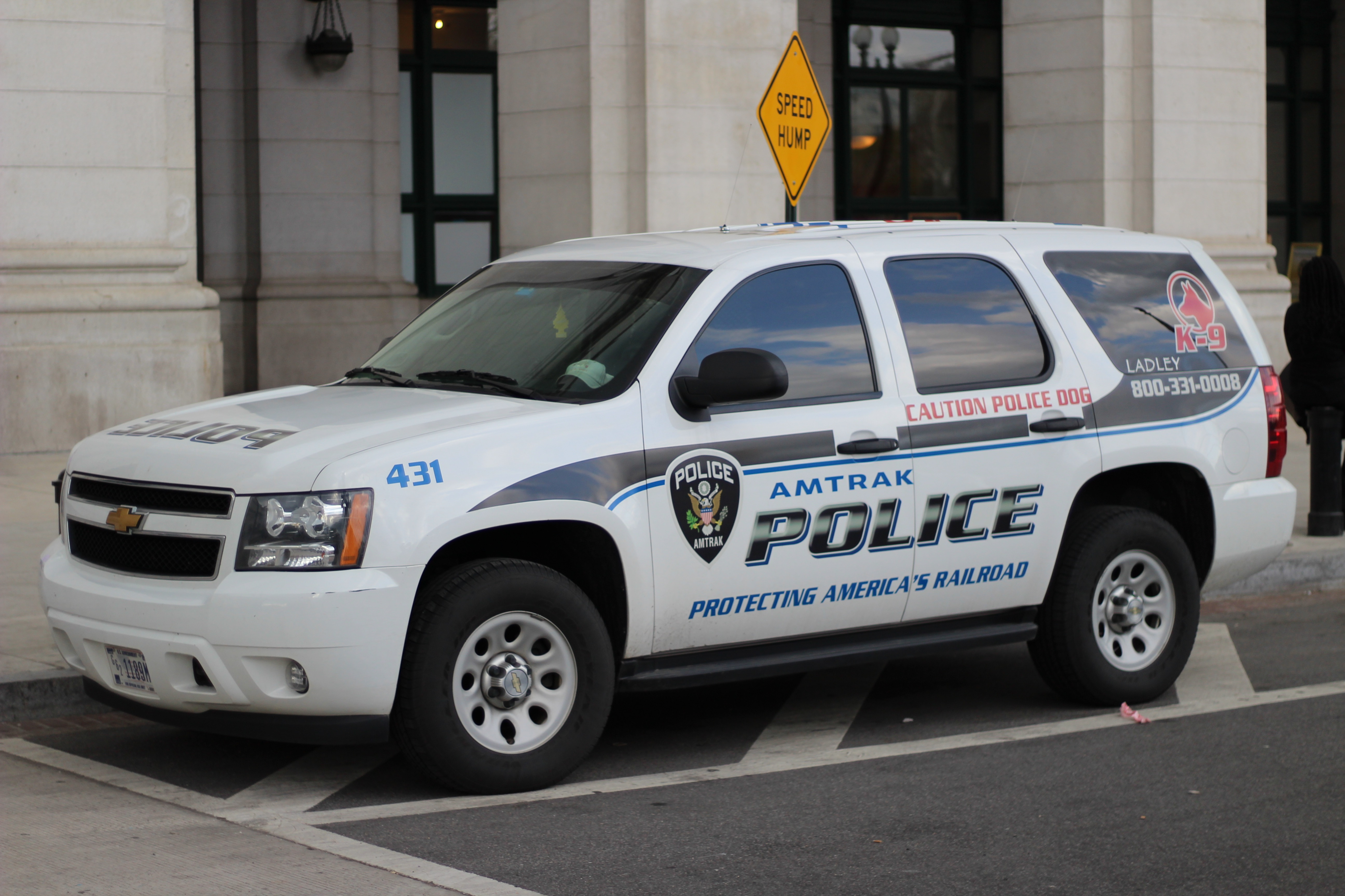 An Amtrak police unit parked outside Union Station in Washington, DC.